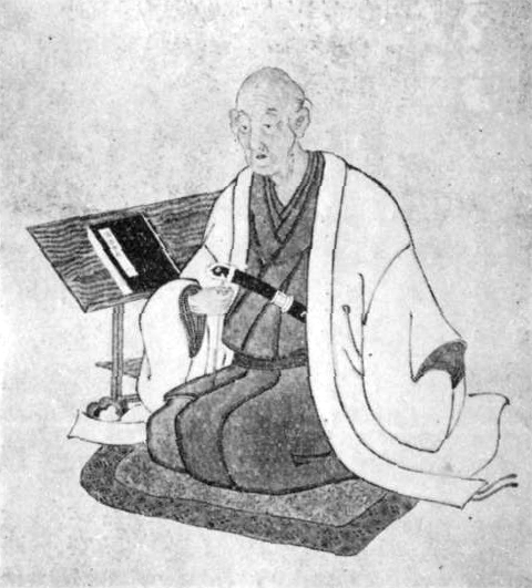 Takano Yokei